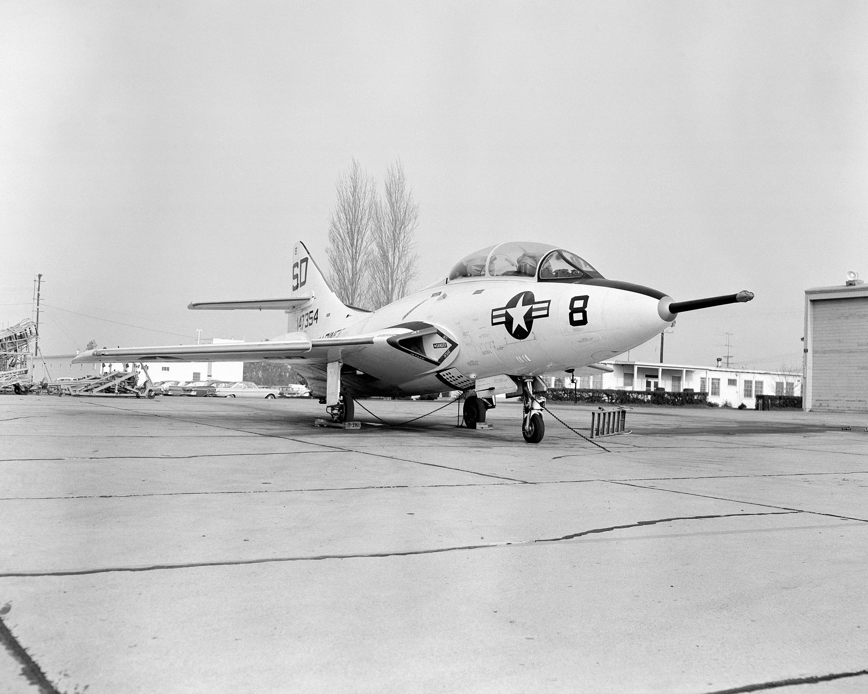 A Grumman TF-9J Cougar aircraft (BuNo. 147345) of Marine training squadron VMT-103 Sky Chickens parked on the flight line at Marine Corps Air Station El Toro (California, USA) on 8 Jan 1965.